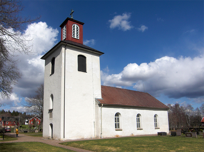 Jäla church in Vilske hundred, Falköping municipality, The Diocese of Skara, Västergötland, Sweden.